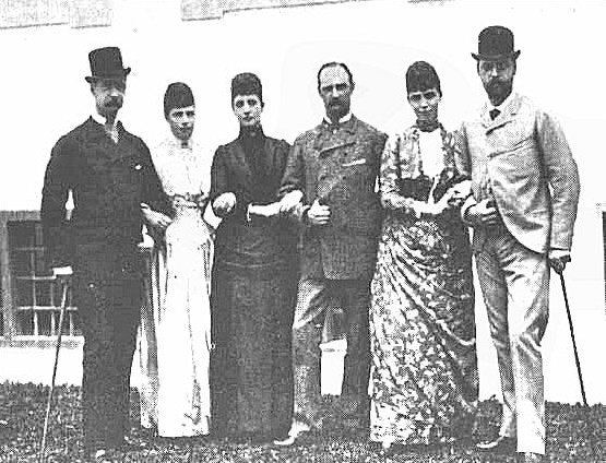 from left: King George I of Greece, Czarina Marie of Russia, Queen Alexandra of England, Crown Prince Frederik (VIII) of Denmark, Princess Thyra, and Prince Valdemar at Fredensborg Castle, Denmark